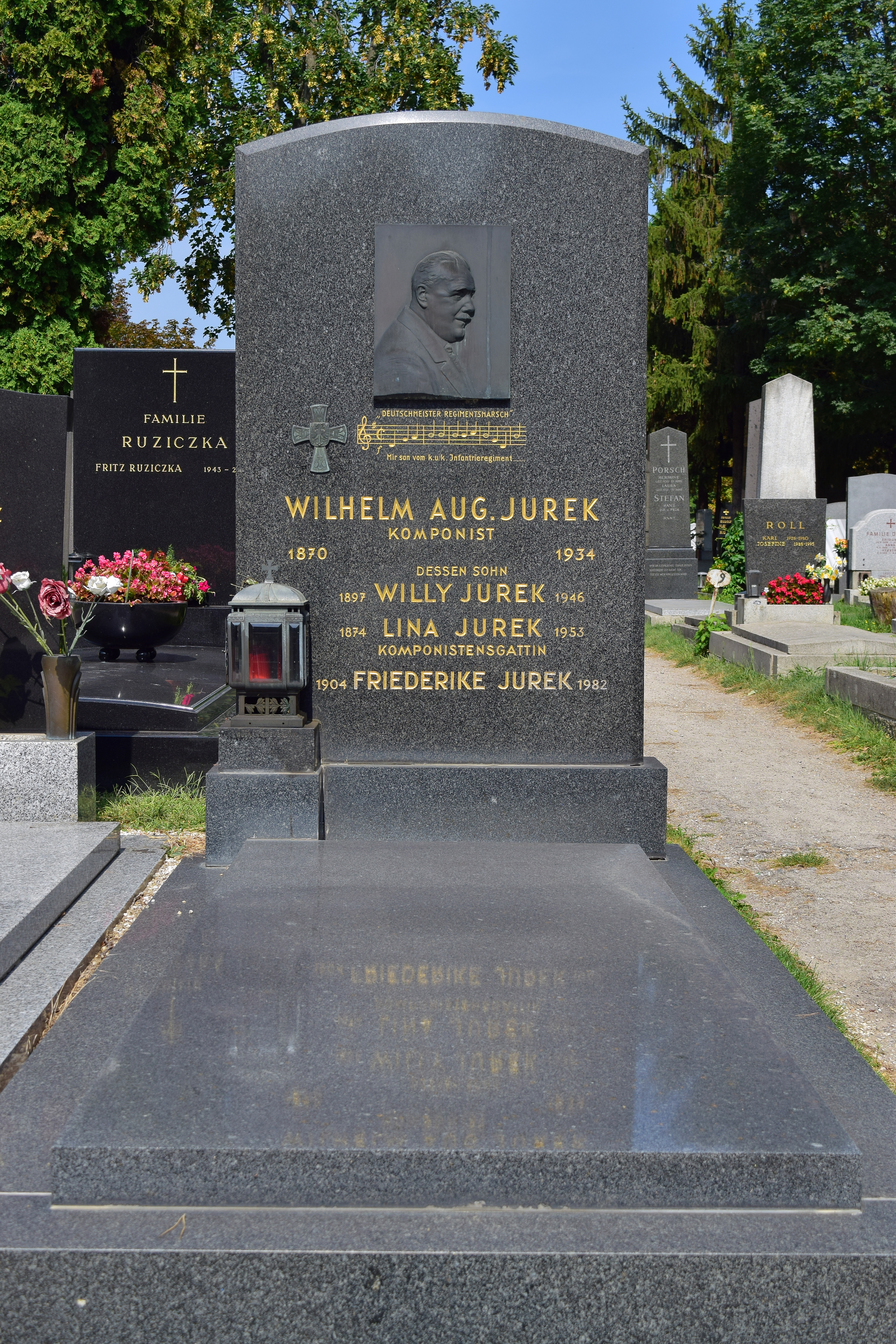 Grave of honor of the Kapellmeister, Composer and Conductor Wilhelm August Jurek at the Wiener Zentralfriedhof